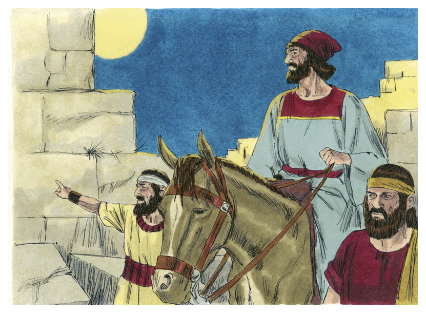 Biblical illustration of Book of Nehemiah Chapter 2